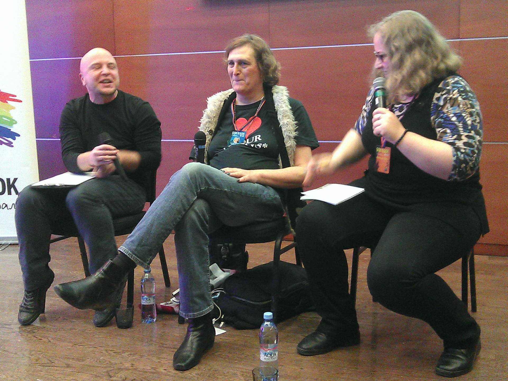 Sally Goldner (middle) at the Side by Side Film Festival in Saint Petersburg.